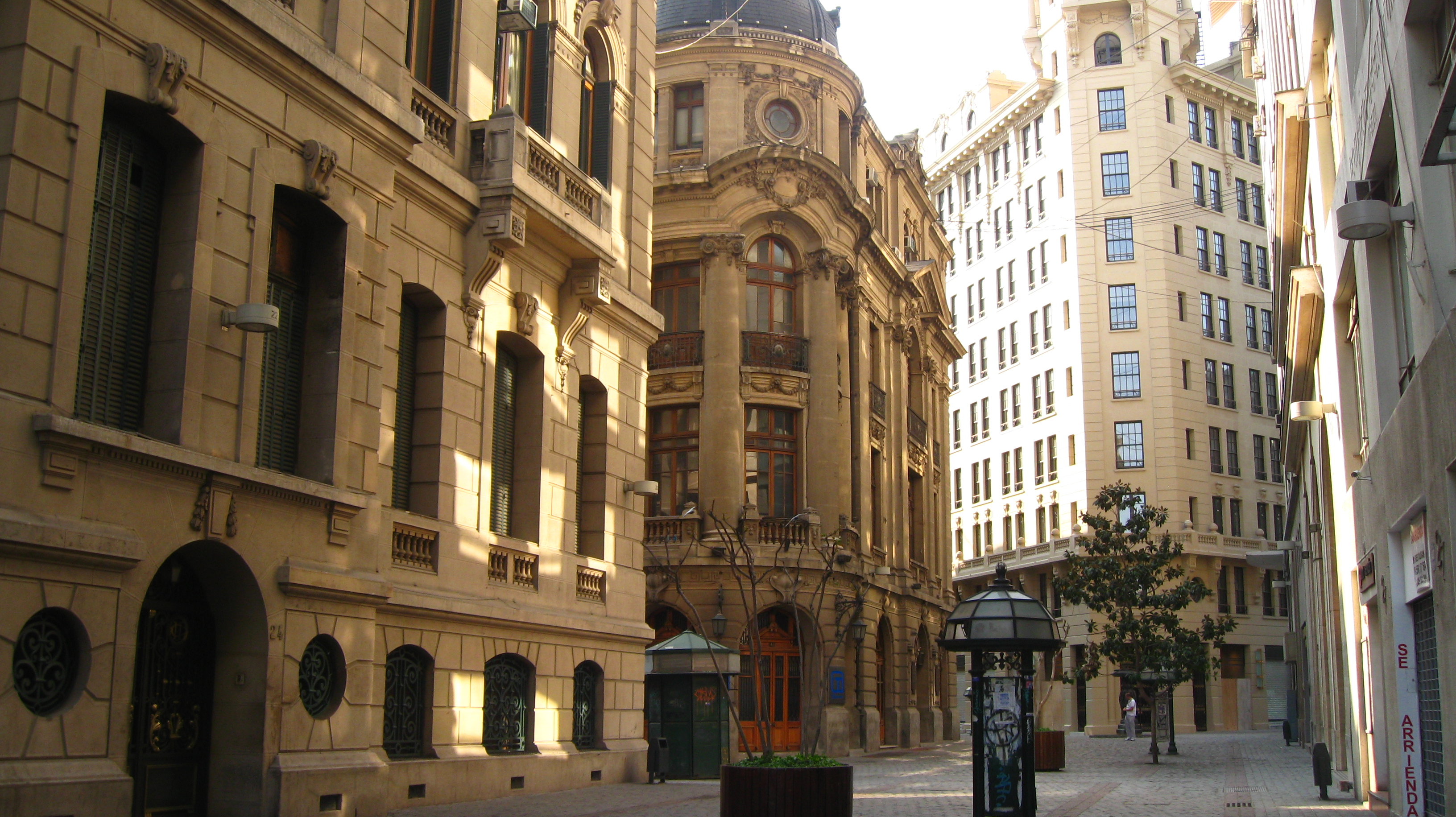 This is a photo of a national monument in Chile: 841